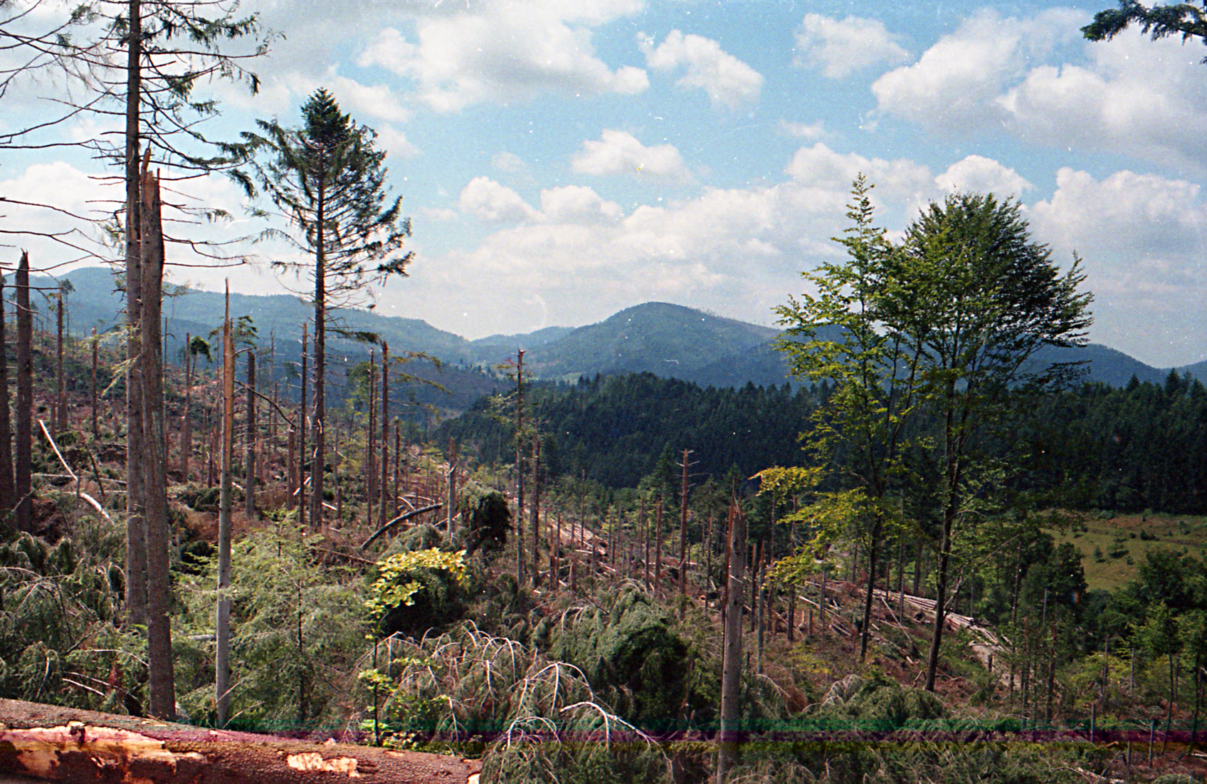 Schwarzwald near Baden-Baden after storm Lothar